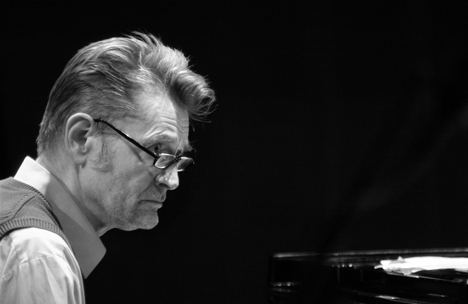 Amsterdam - Bimhuis, Alexander von Schlippenbach, German jazz pianist